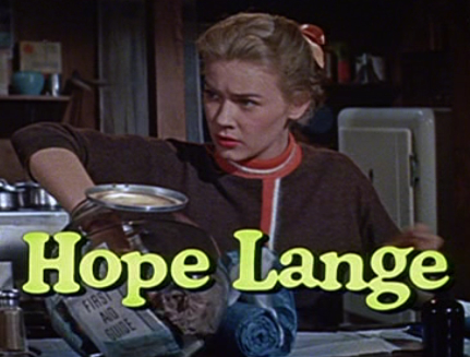 Screenshot of Hope Lange from the trailer for the film Bus Stop